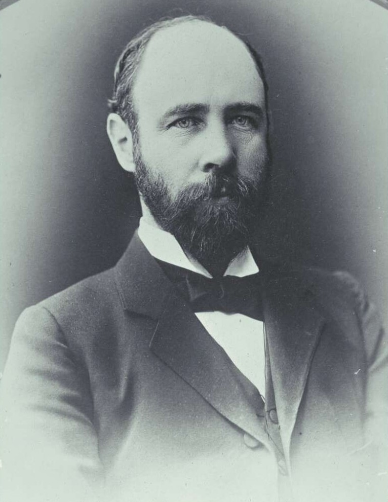 William McMillan From the 1898 Australasian Federal Convention Album.